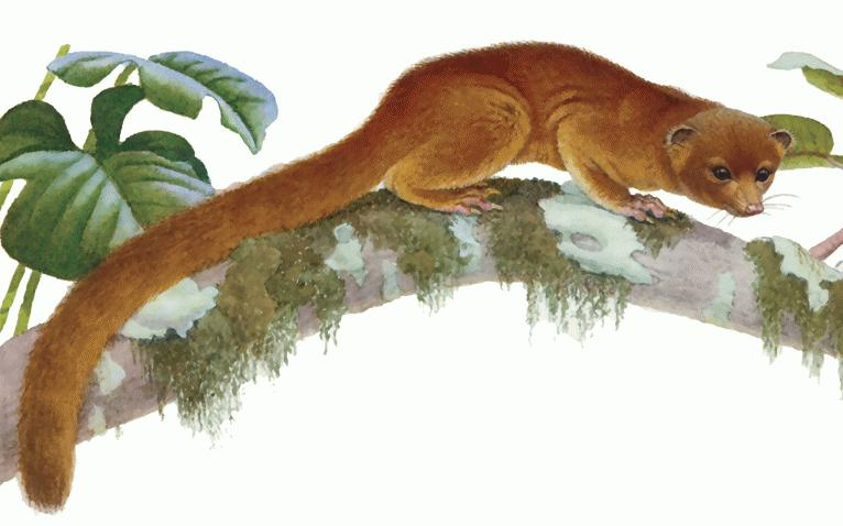 ZooKeys - Bassaricyon neblina Cut-out from original (Illustrations of the species of Bassaricyon - ZooKeys-324-001-g003.jpg) shown below